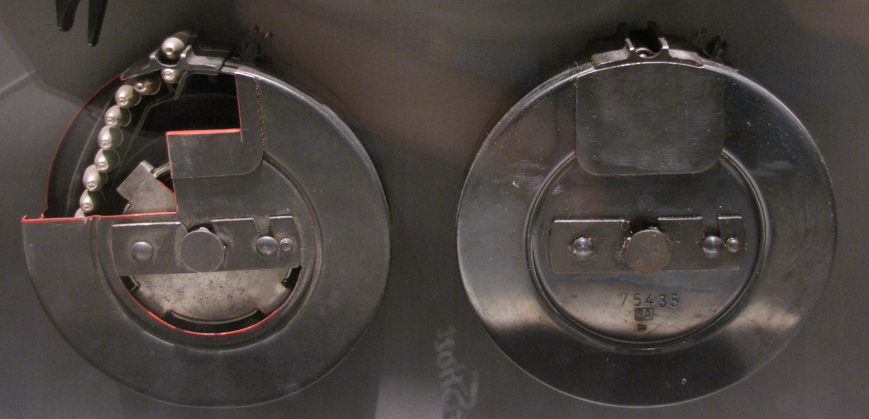 Drum magazines of a 9 mm Suomi KP/-31 submachine gun, a sectioned example on the left.